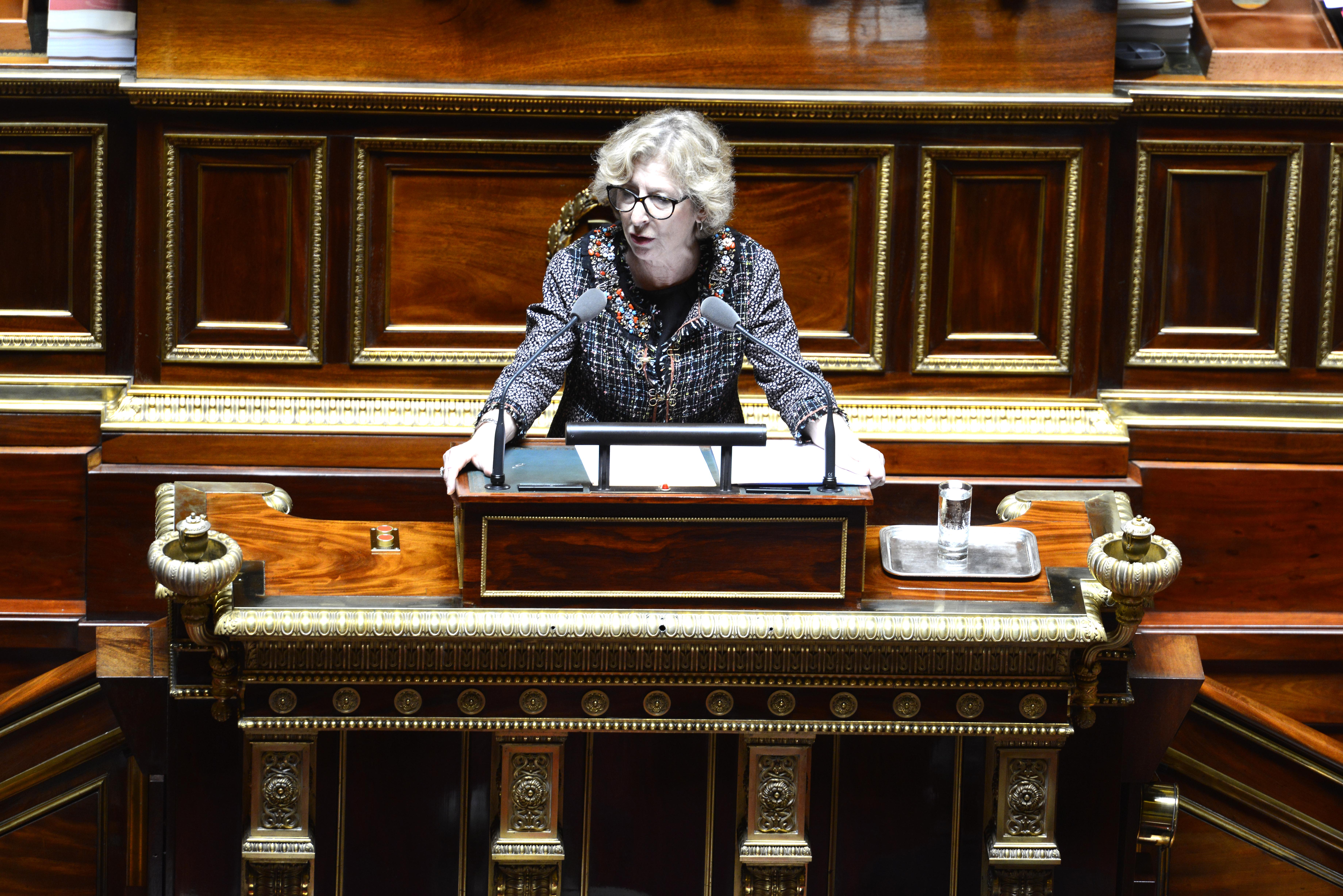 A l'occasion de l’ouverture de la discussion en séance publique du projet de loi relatif à l’enseignement supérieur et à la recherche devant le Sénat, mercredi 19 juin 2013, Geneviève Fioraso est revenue sur les grands objectifs du texte : améliorer la réussite étudiante, développer une véritable ambition pour la recherche.